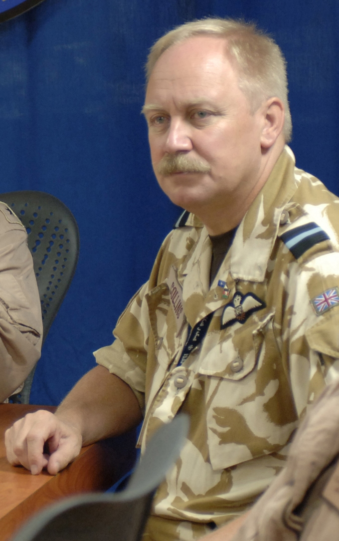 Air Commodore Bryan Collins RAF, International Security Assistance Force Detachment Commander on board the USS Enterprise